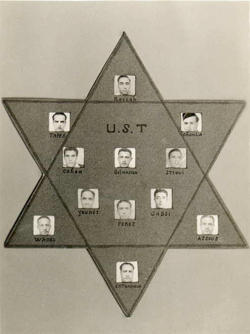 UST- Postcard - team